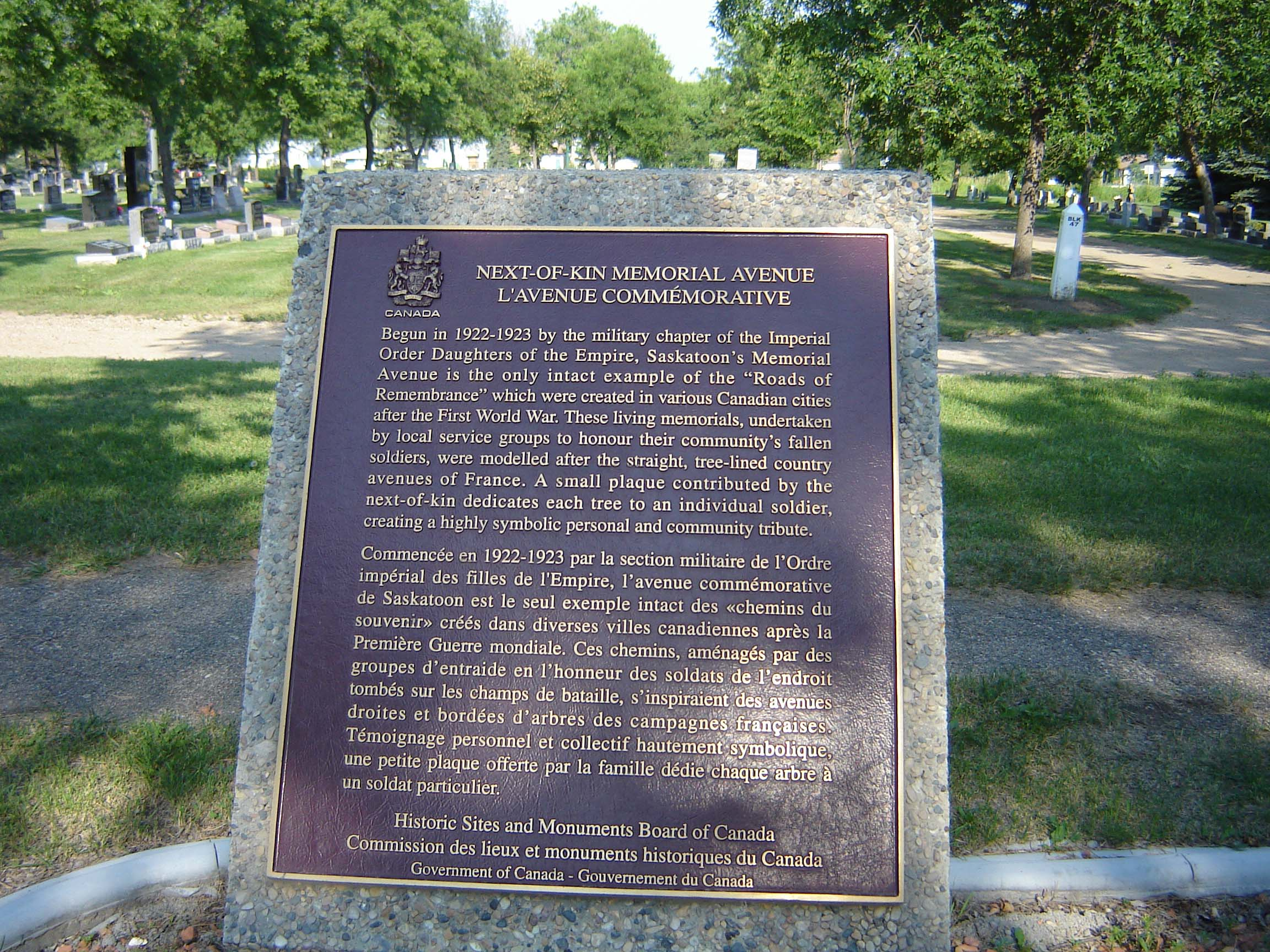 The Next-Of-Kin Memorial Avenue at Woodlawn Cemetery Saskatoon Saskatchewan Canada City of Saskatoon · Departments · Infrastructure Services · Parks